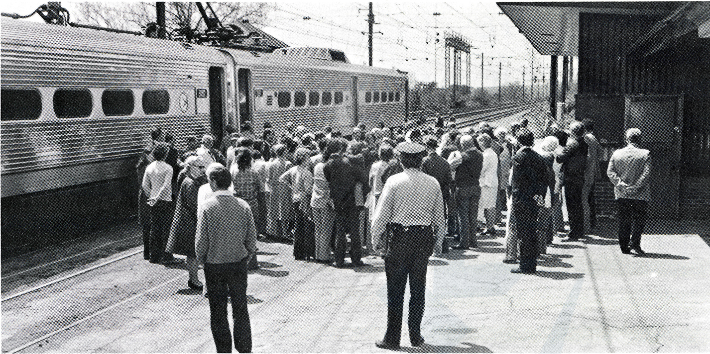 A demonstration run of the Chesapeake makes a station stop at Perryville on April 30, 1978, the day before it began regular service. This run used Arrow II railcars being ferried to Washington for Washington-Baltimore commuter service; both Arrow II and Arrow III cars were used for regular service.